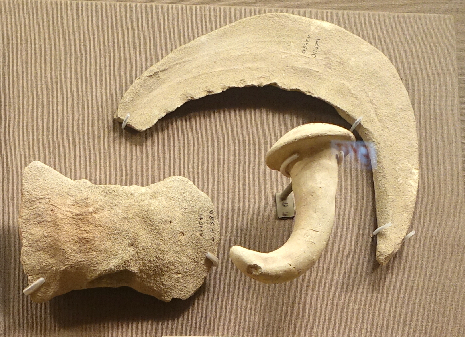 Exhibit in the Oriental Institute Museum, University of Chicago, Chicago, Illinois, USA. This work is old enough so that it is in the public domain.